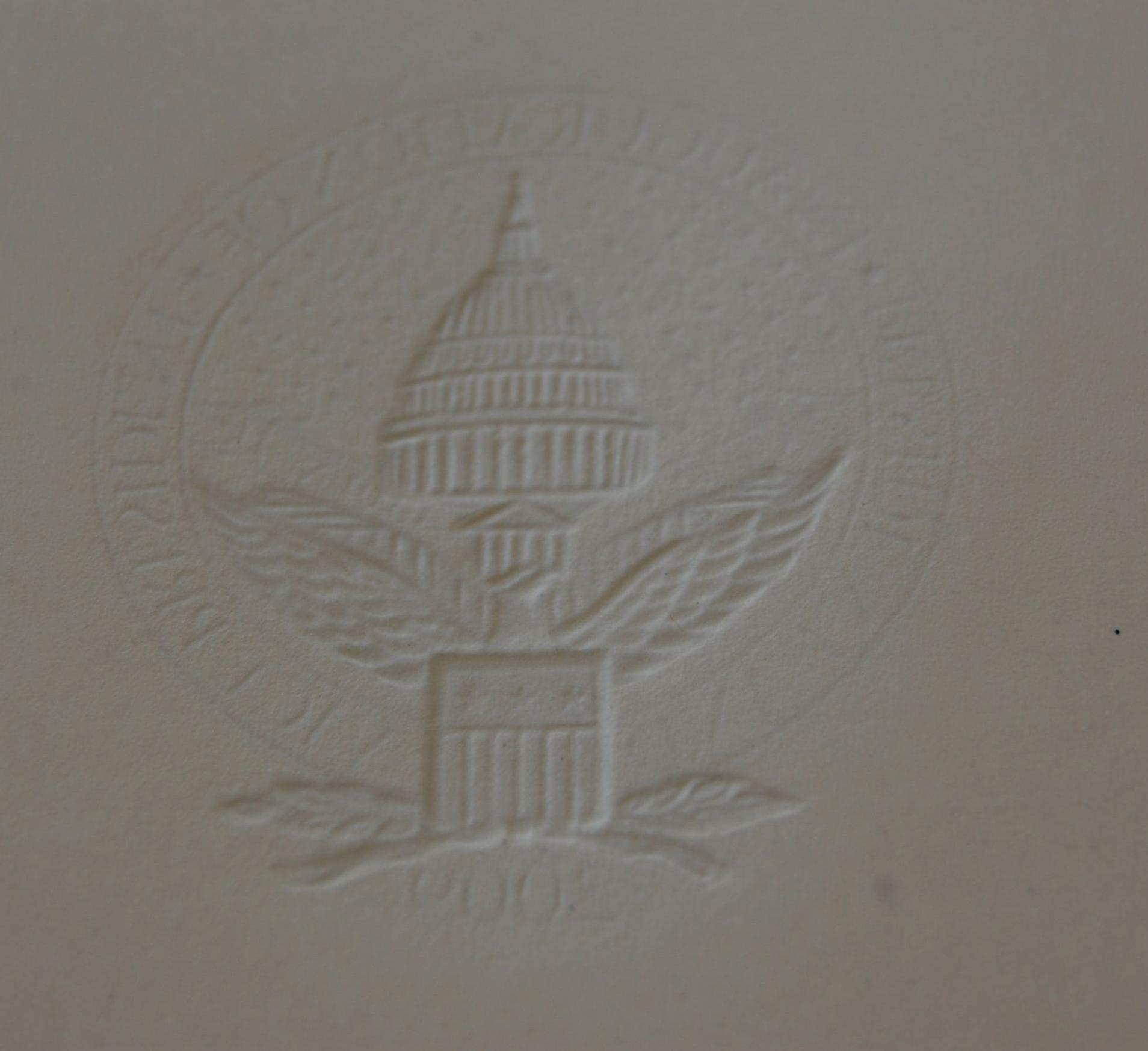 Image of the back of the Invitation to the Inauguration of Barack Obama, showing the indentation of the engraving process used to print the invitations.